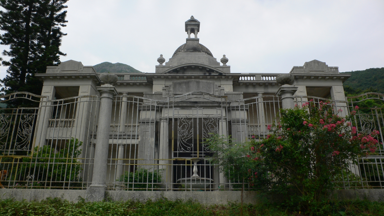 Jessville is a mansion built in 1929. It is located at 128 Pok Fu Lam Road in Hong Kong. It was built by the father-in-law of Sir Ti Liang Yang.